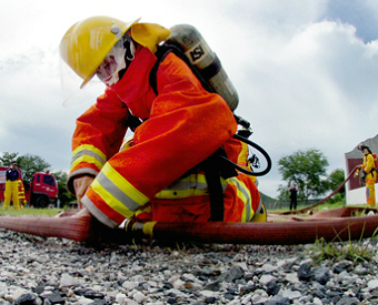 A firefighter from the Port of Laem Chabang in Pattaya, Thailand, secures a hose fitting during a training exercise with the Washington National Guard near the port on May 19, 2009.